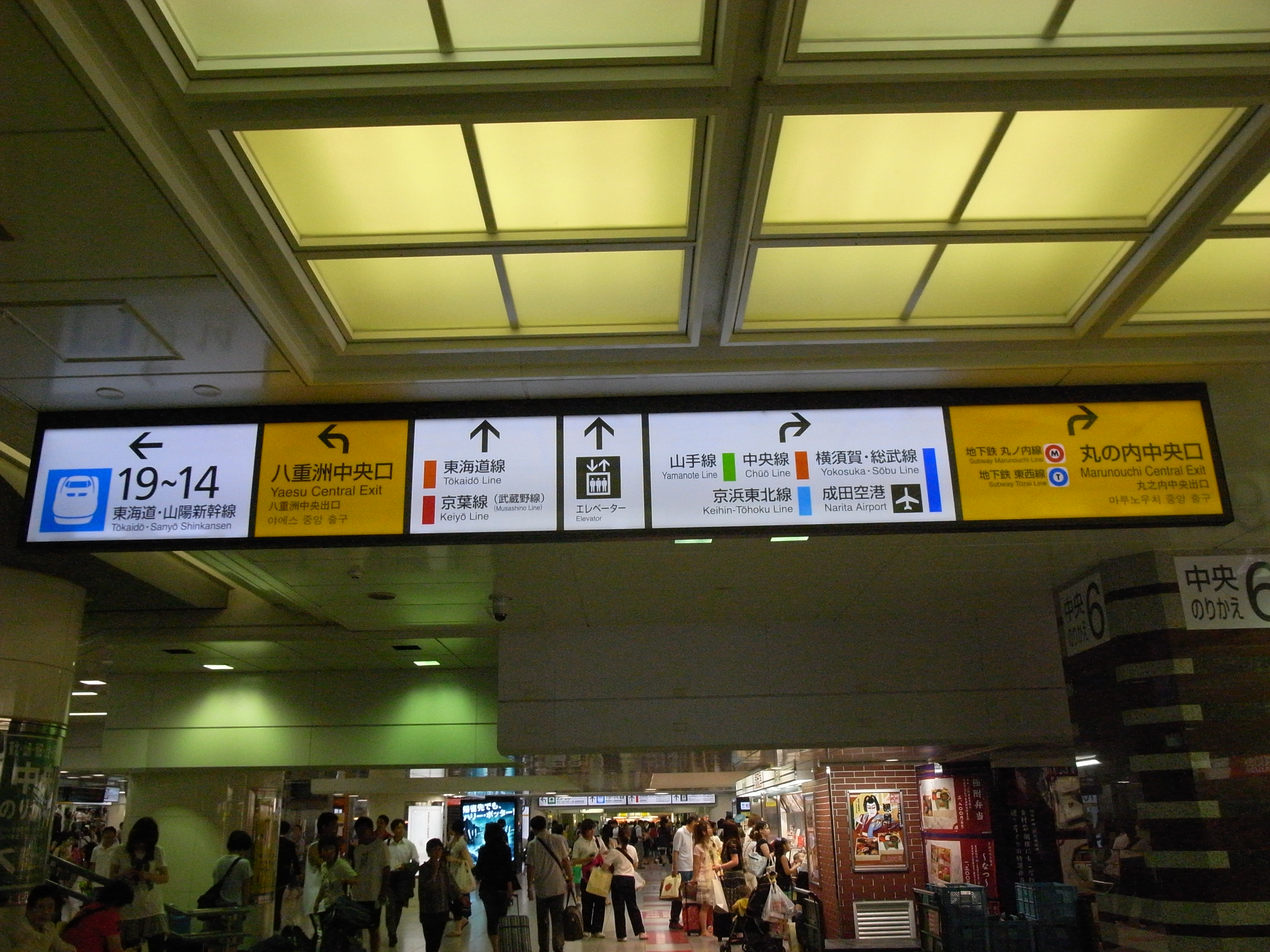 Signboard at Tokyo Sta.